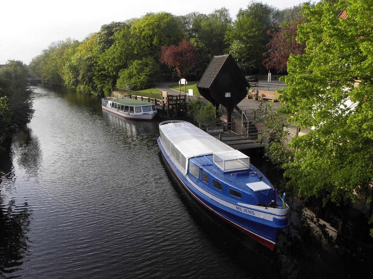 Otterndorf 2010